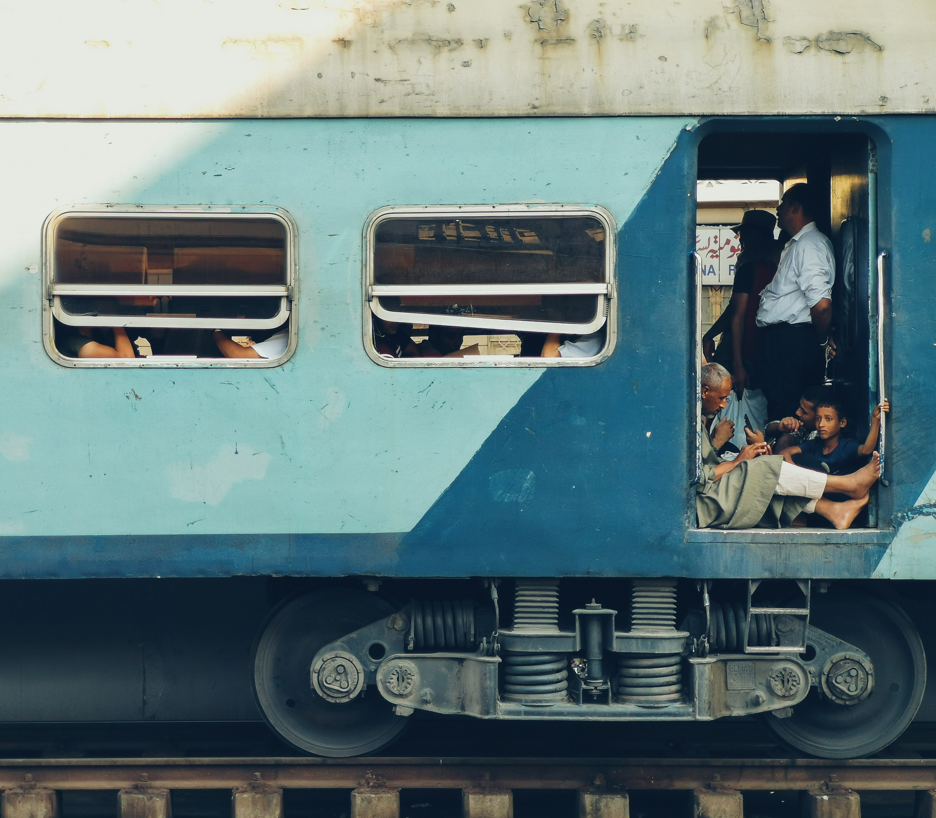 Hope of a child This is an image with the theme "Africa on the Move or Transport" from: Egypt